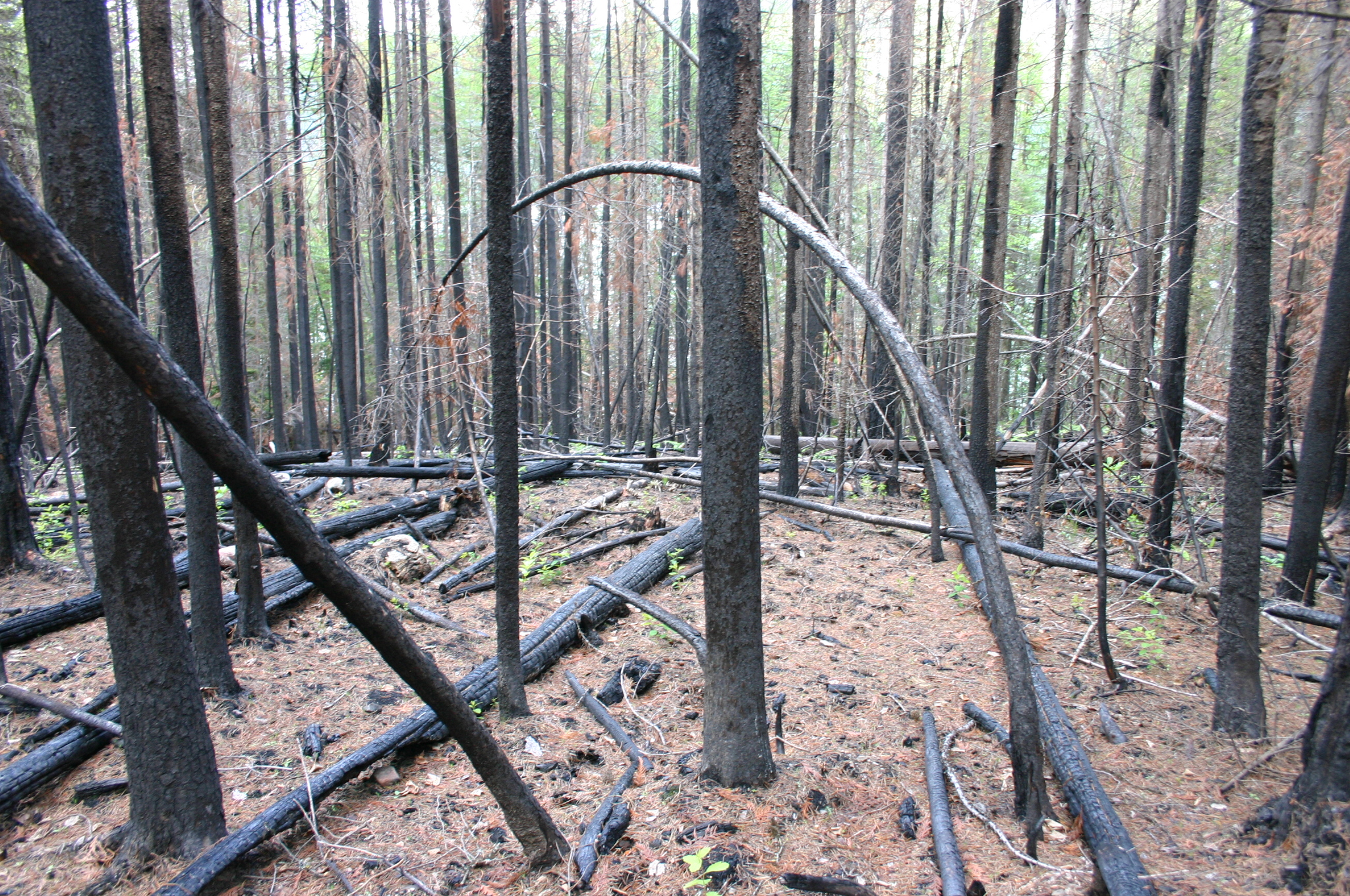 This photo vividly shows a burnt forest. The forest fire happened one year ago in summer 2003. Some rare woodpeckers only inhabit recently burnt forest; the burnt forest also provides a chance for botanist to study plant succession in a dramatically altered ecosystem, and for geologists to study the landscape without being covered by vegetation.